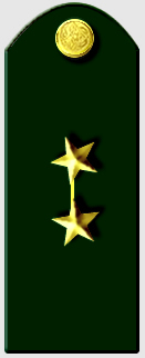 rank insignia of teniente (Lieutenant) of the Colombian Army.